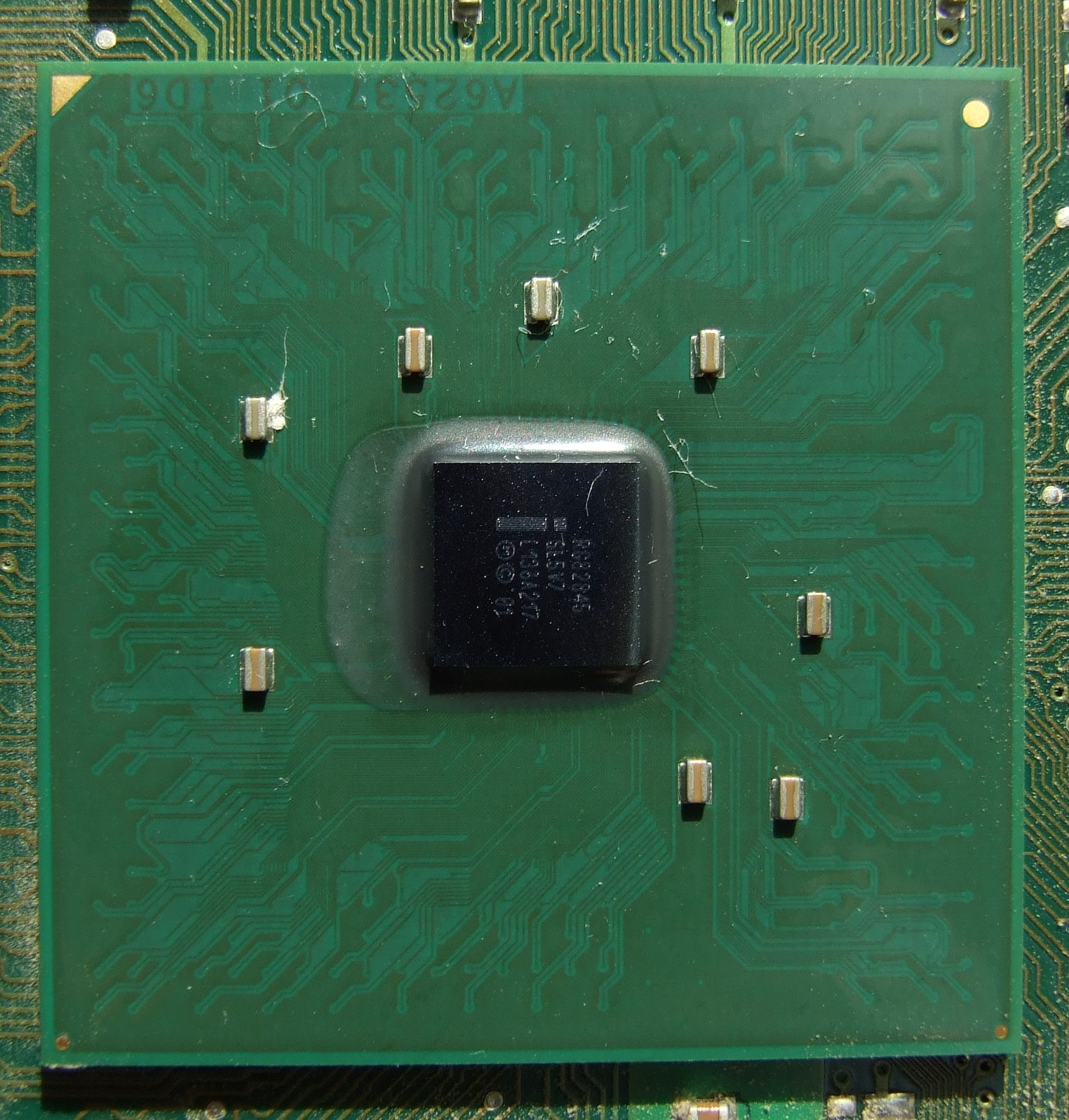 North Bridge Intel i845 (Brookdale)